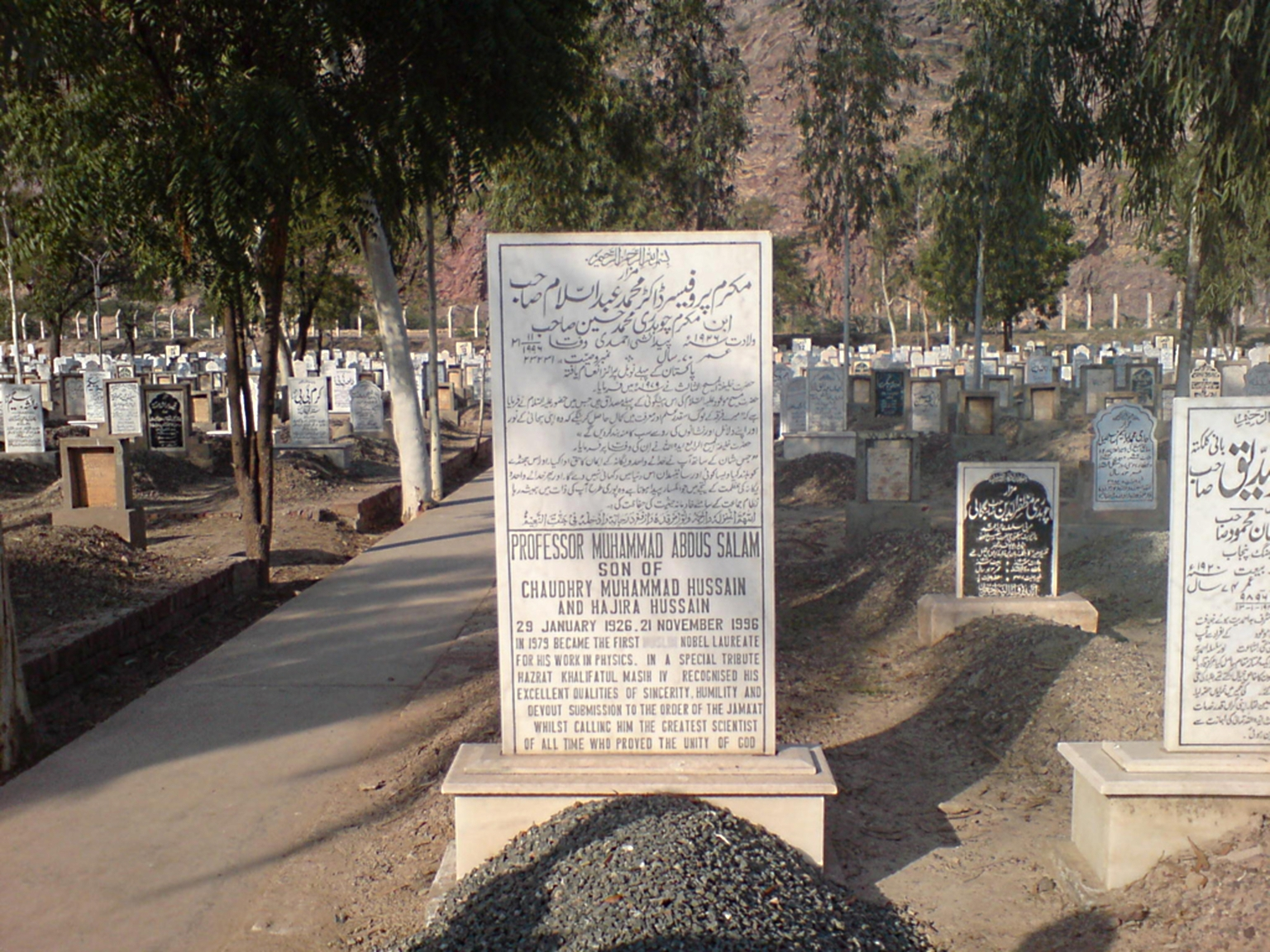 Grave of Prof. Dr. Abdus Salam (1926-1996) in Rabwah. In the English inscription the phrase "the first Muslim Nobel laureate" the word "Muslim" has been erased. The Urdu inscription is hardly readable, but it seems that it never contained the word مسلم.